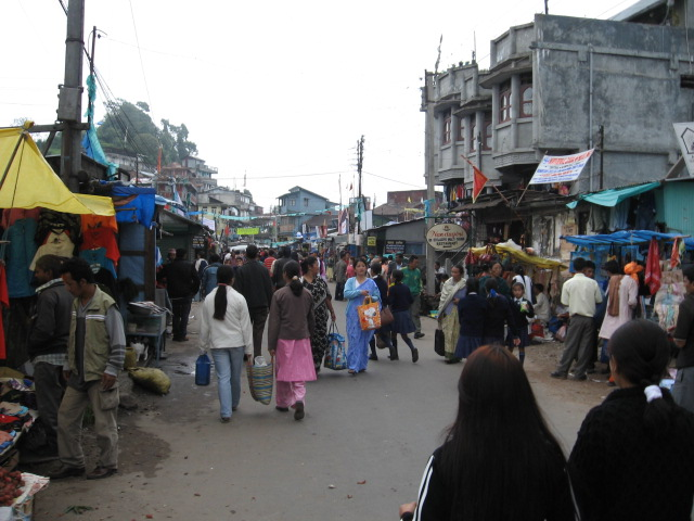 Sukhiapokhri Weekly Market.